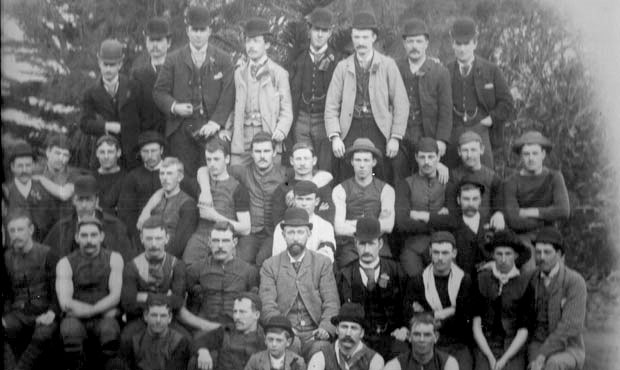 Essendon FC team players.